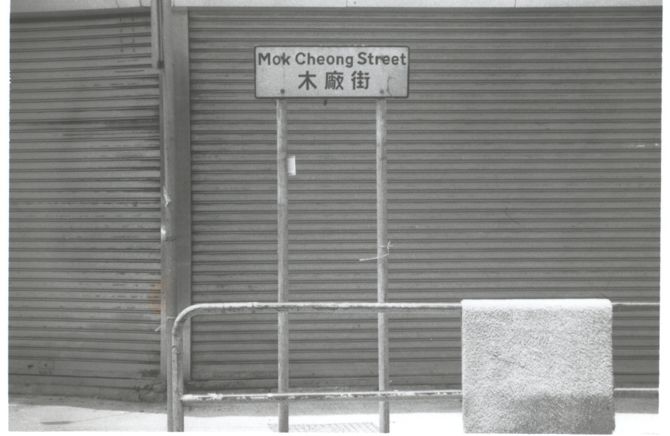 VTech’s office and factory were located in Mok Cheong Street, Tokwawan in 1976